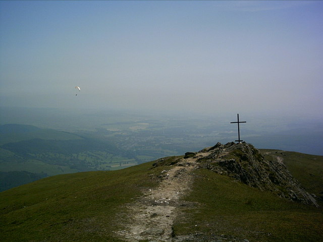 Ben Ledi looking towards Callander I walked up with the chap paragliding who is a resident of Stirling but whose name escapes me.